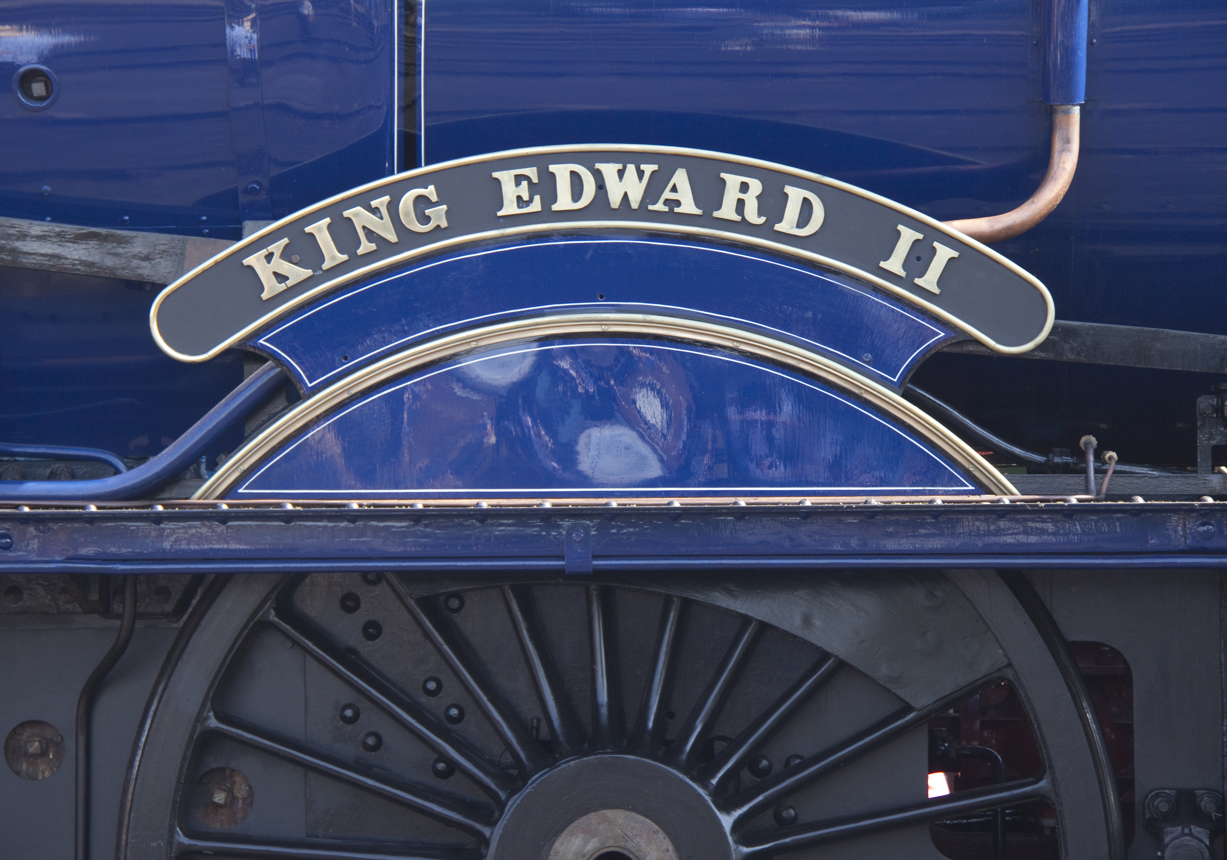 King Edward II